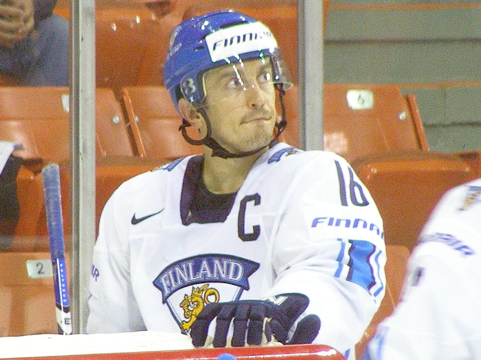 Finland VS Slovakia (IIHF World Hockey Championship in Halifax NS, May 7 2008)